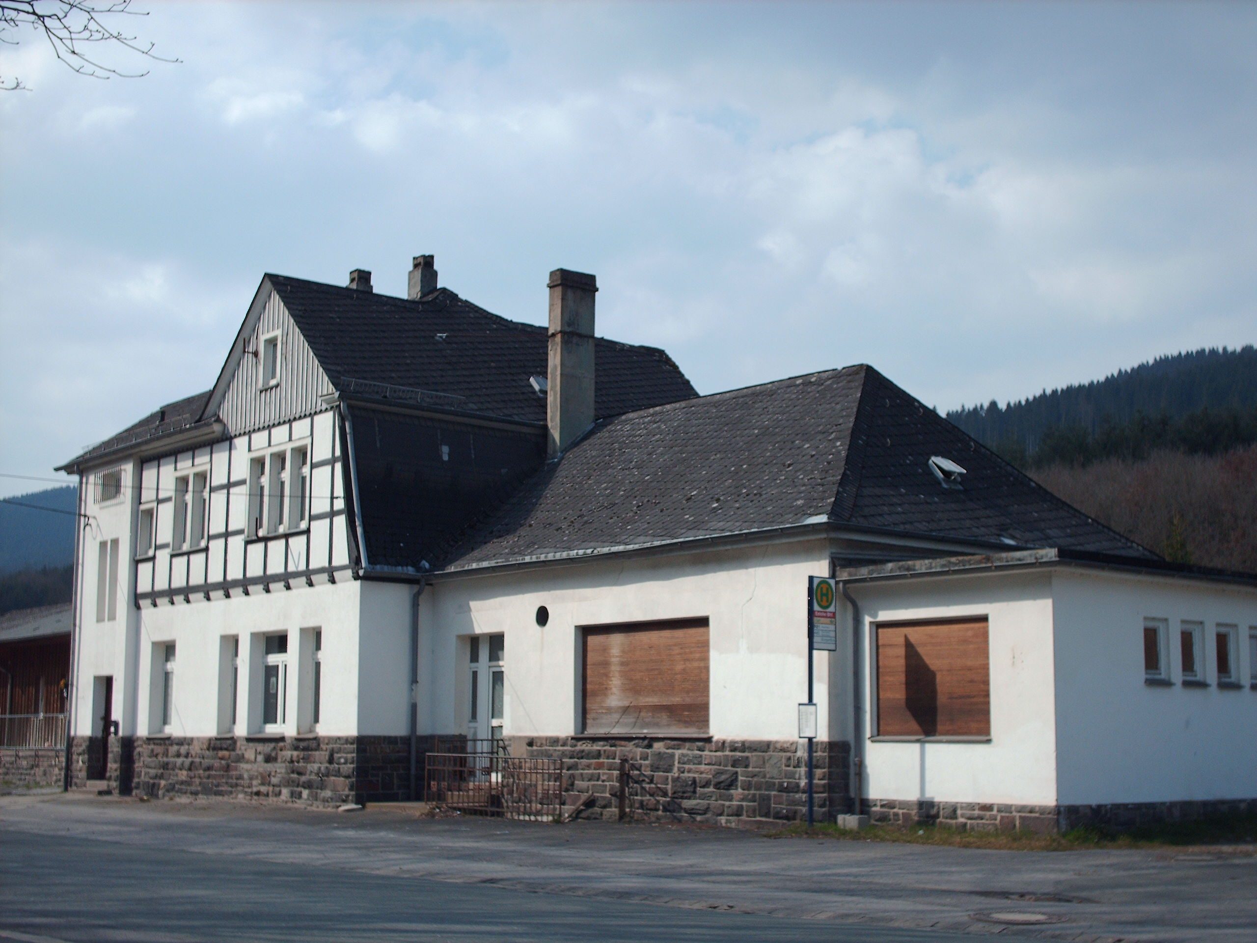 Train station, Eslohe, Germany check usage